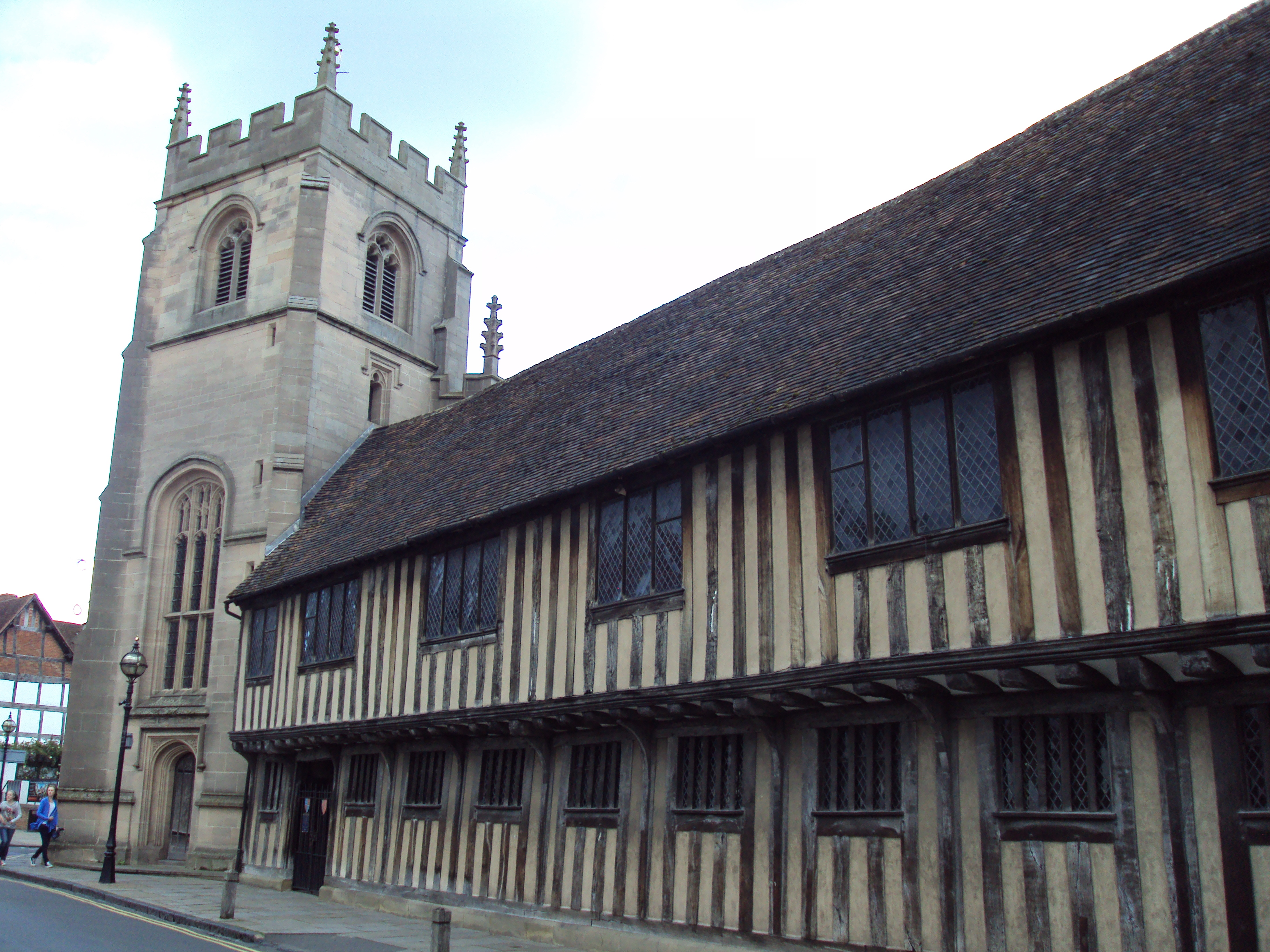 Guild Chapel & King Edward VI Grammar School as seen from Church Street, Stratford-upon-Avon, England.